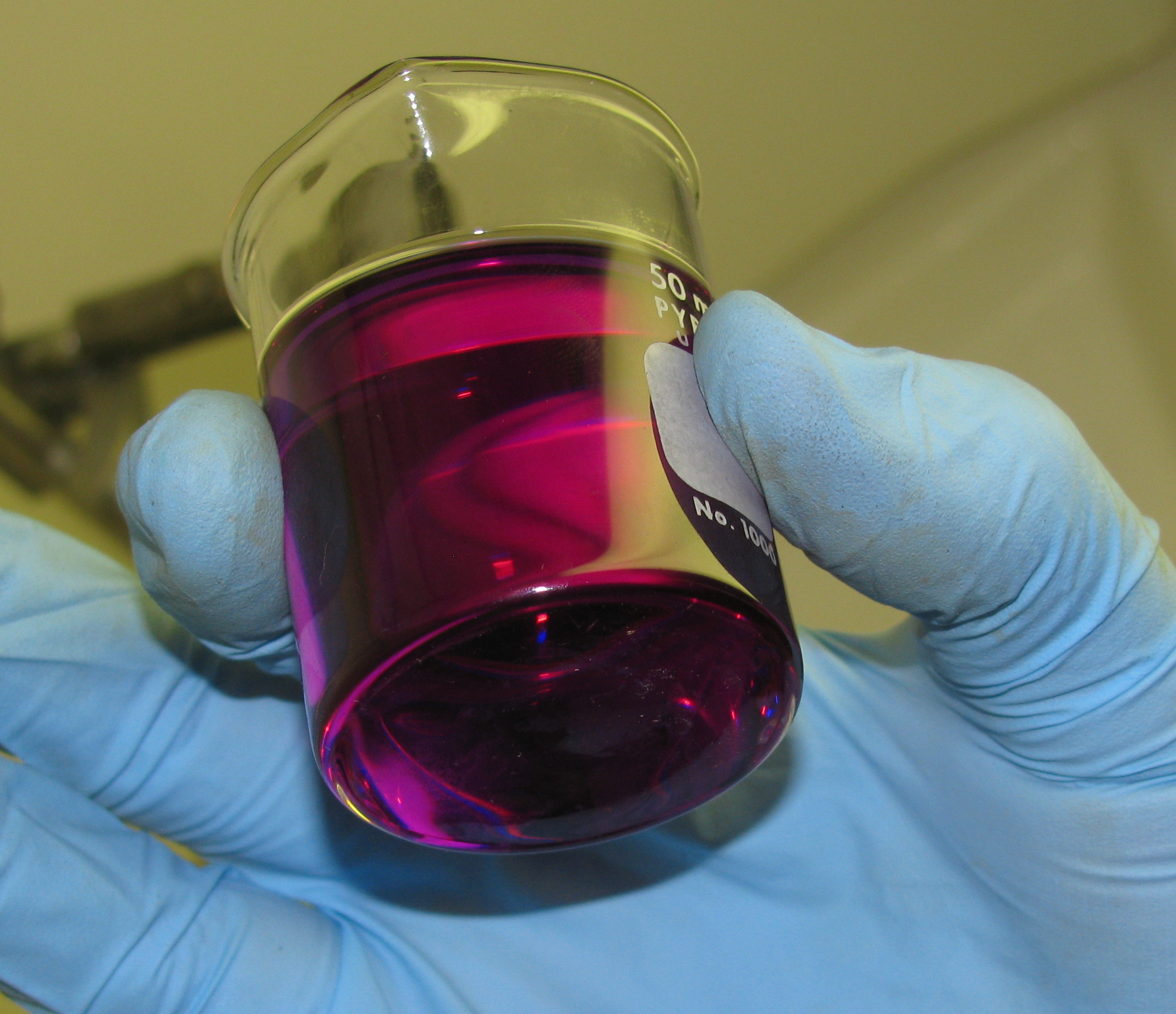 A solution of Buckminsterfullerene in benzene